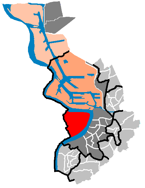 neigborhood of Antwerp (City)